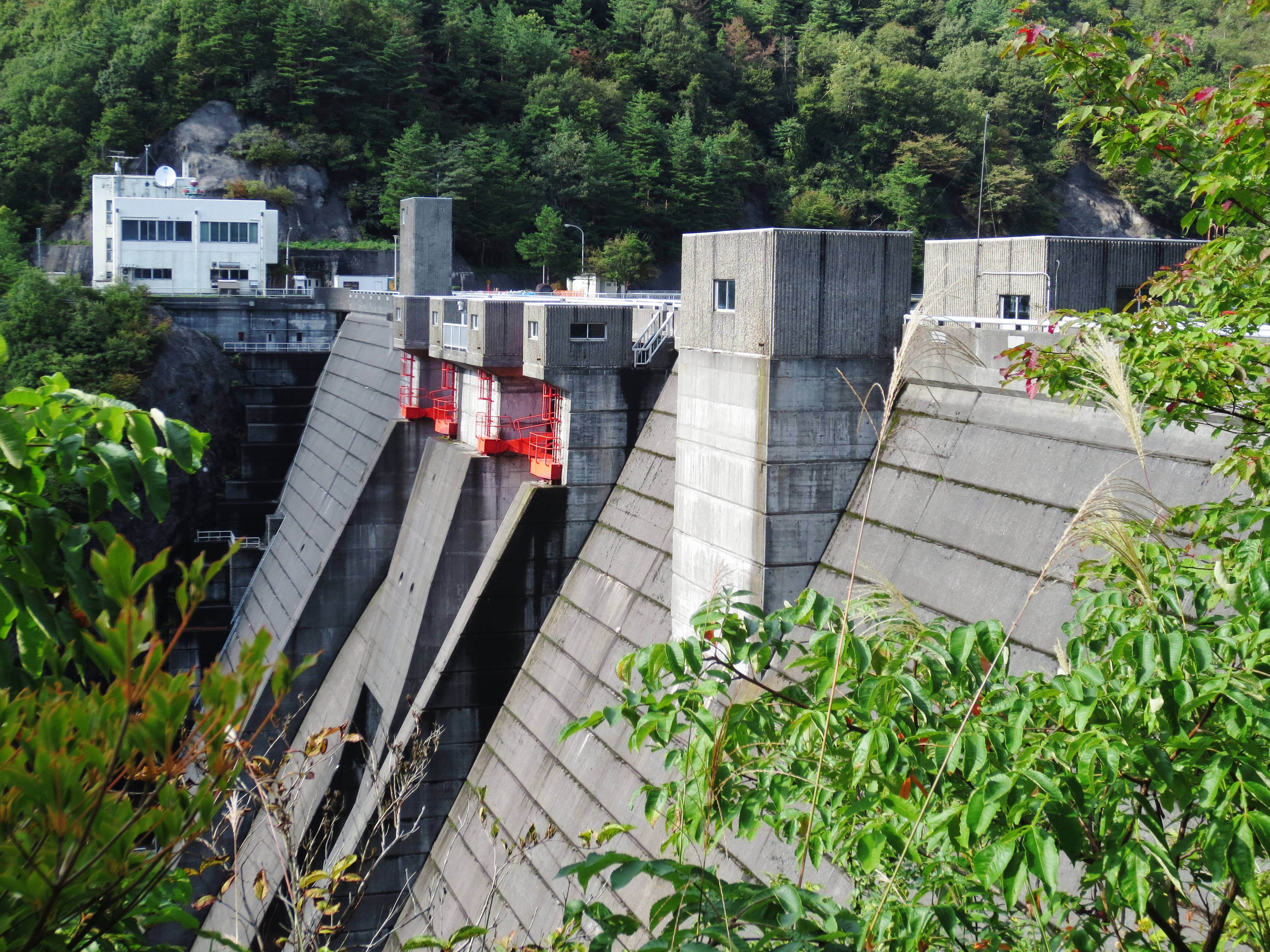 Uchinokura Dam.